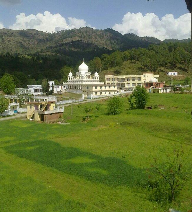 Famosr gurudwara in Nowshera known by its loal name " Central Gurudwara", situated in village Upper Nonial.